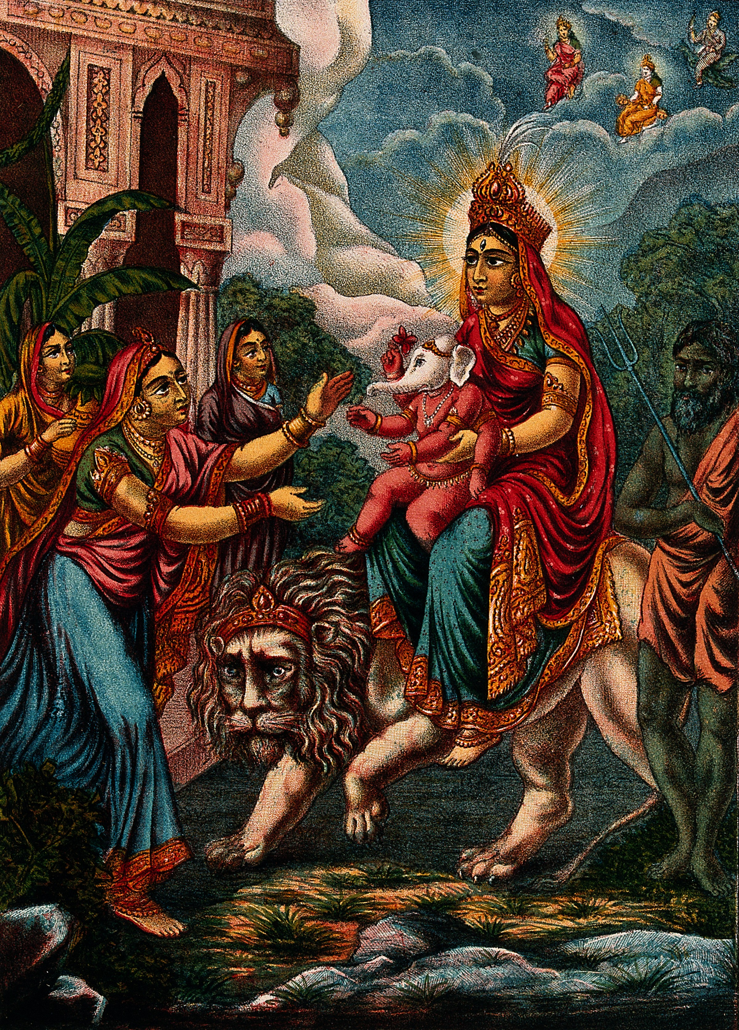 A goddess probably Parvati as Durga riding on a lion presenting an infant Ganesha to a woman. Chromolithograph. Iconographic Collections